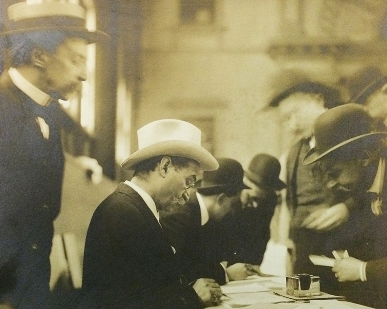 Gustav Scholer (1851-1928) signing death certificate for the General Slocum disaster on June 15, 1904